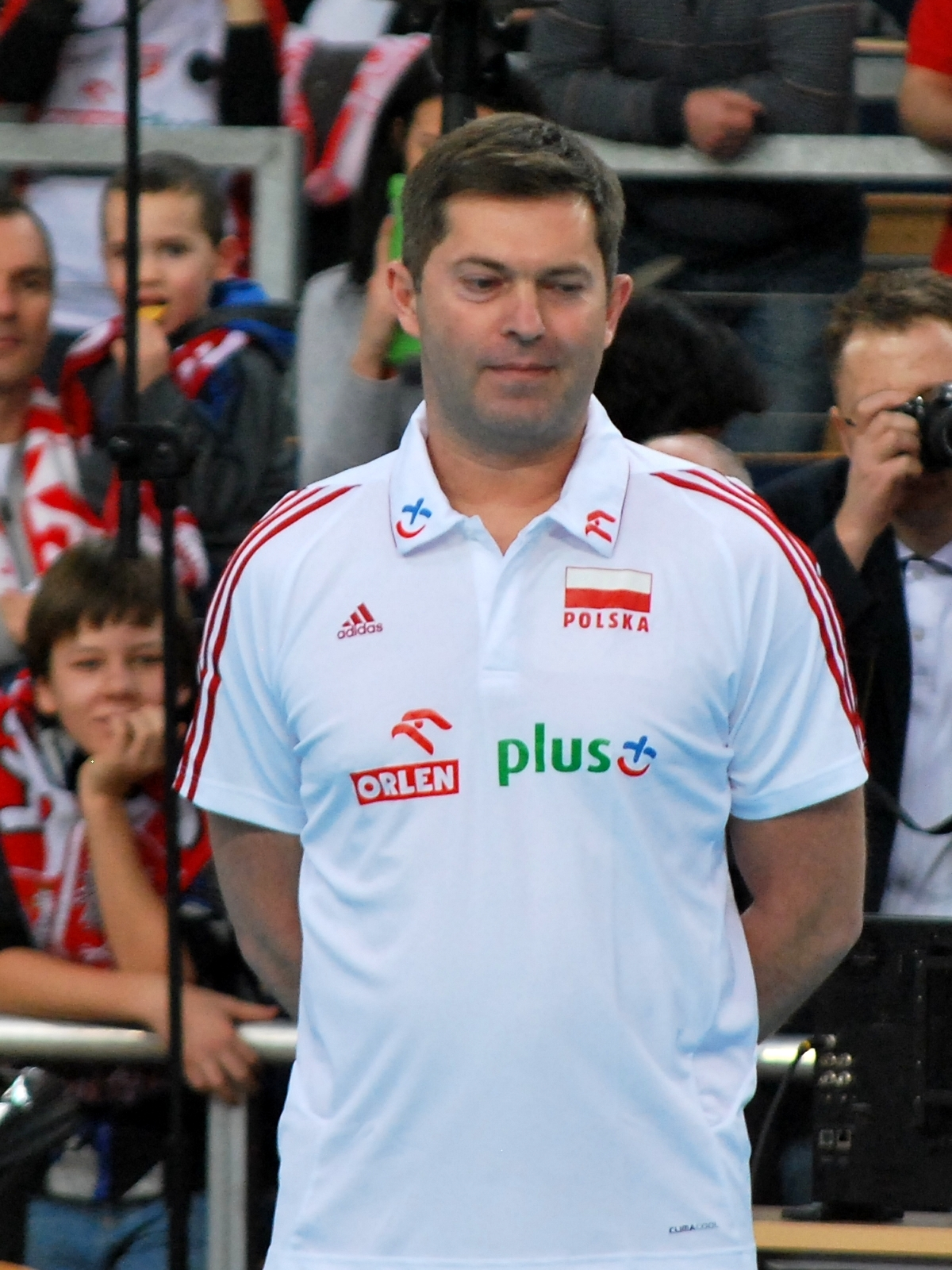 FIVB World Championship European Qualification Women Łódź January 2014. Piotr Makowski - volleyball coach from Poland